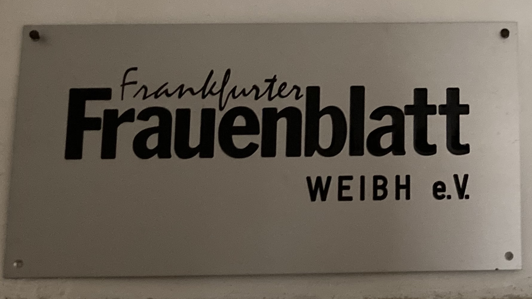 doorplate of the Frankfurter Frauenblatt, photo taken in Ursula Hillmann's office, one of the founders and editors of this feminist magazine